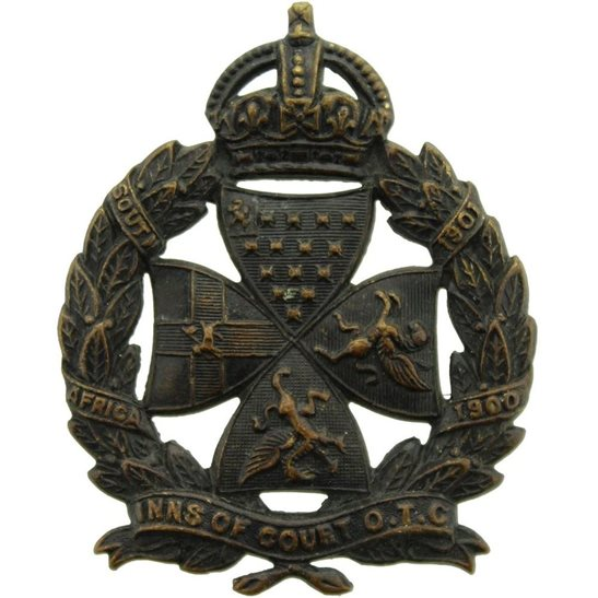 OTC Cap Badge